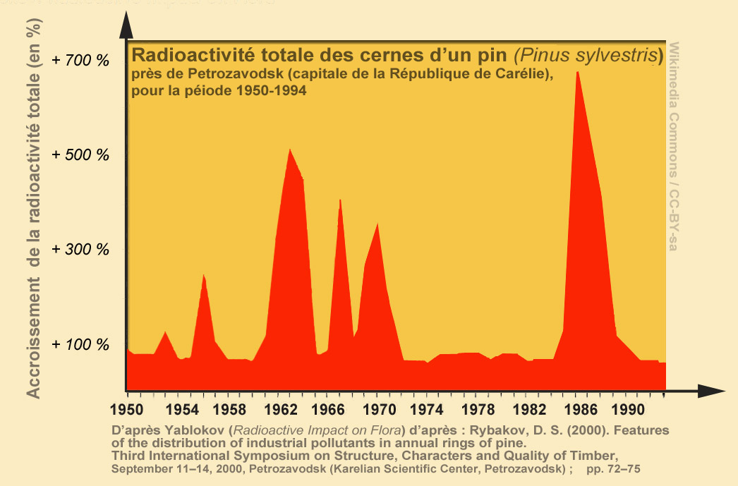 Analysis of the total radioactivity rings of wood (Scots pine) After the Second World War and the atomic bomb , many atmospheric nuclear tests were (in 1950) released large quantities of various radionuclides and radioactive isotopes (including carbon 14) in the air, enough to double the normal rate of C-14 from the atmosphere , and due to the increase in biomass and necromass (first panel). The right-hand peak corresponds to the release into the atmosphere from C-14 by the Chernobyl disaster. Note: there is a slight spread in tree rings corresponding to the months or years prior to an event.